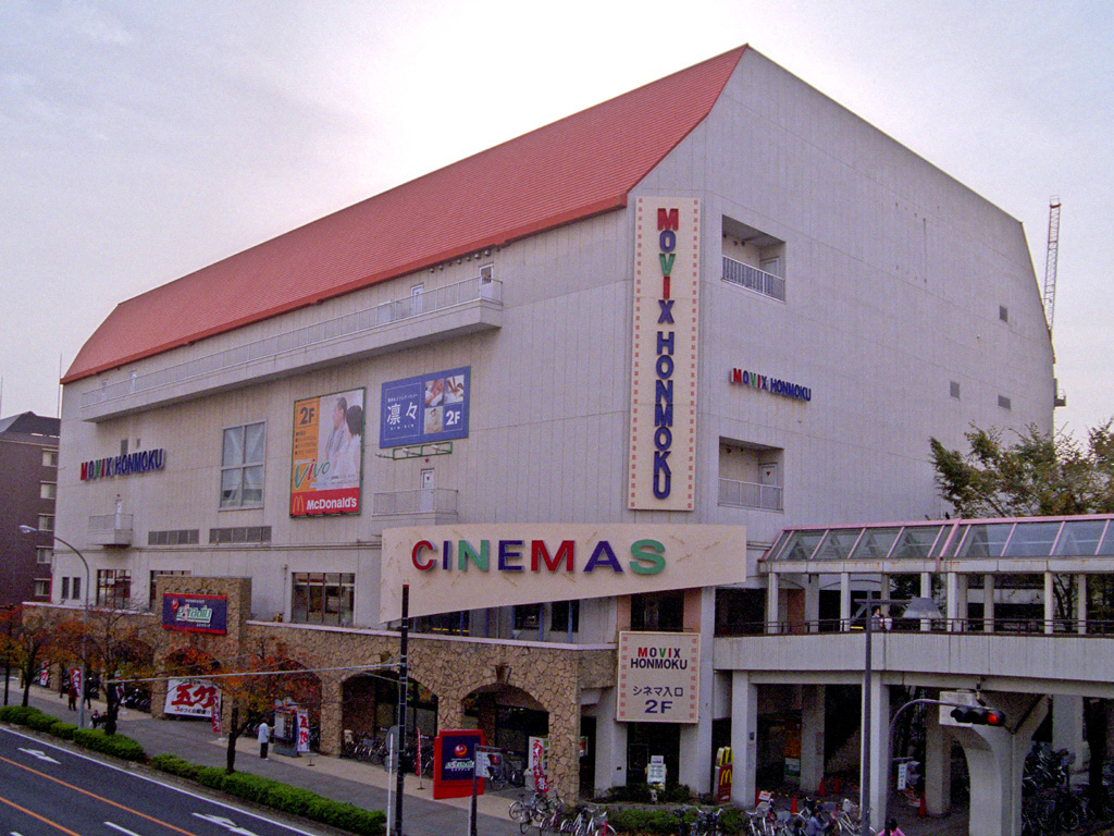 Multiplex Cinema "MOVIX Honmoku" in Japan.